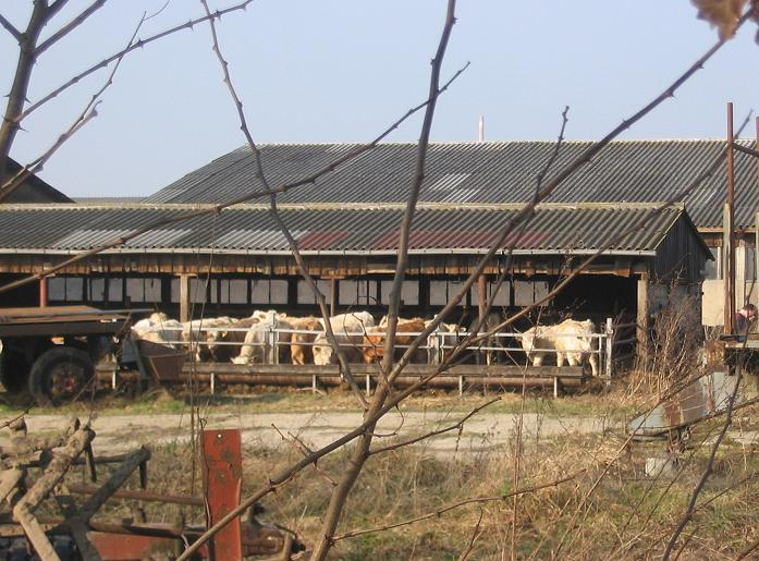 Farmers’ cooperative in Löwenbruch. The village Löwenbruch is a part of the town Ludwigsfelde in the district Teltow-Fläming, state Brandenburg, Germany.